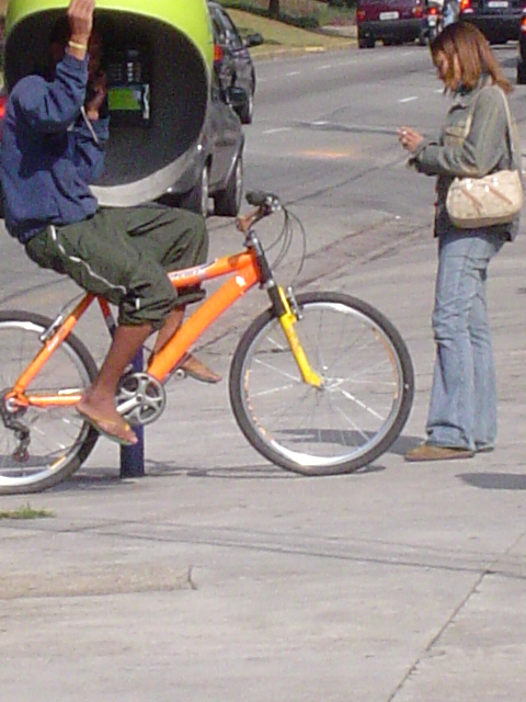 Telephone booths (Barueri-Brasil).